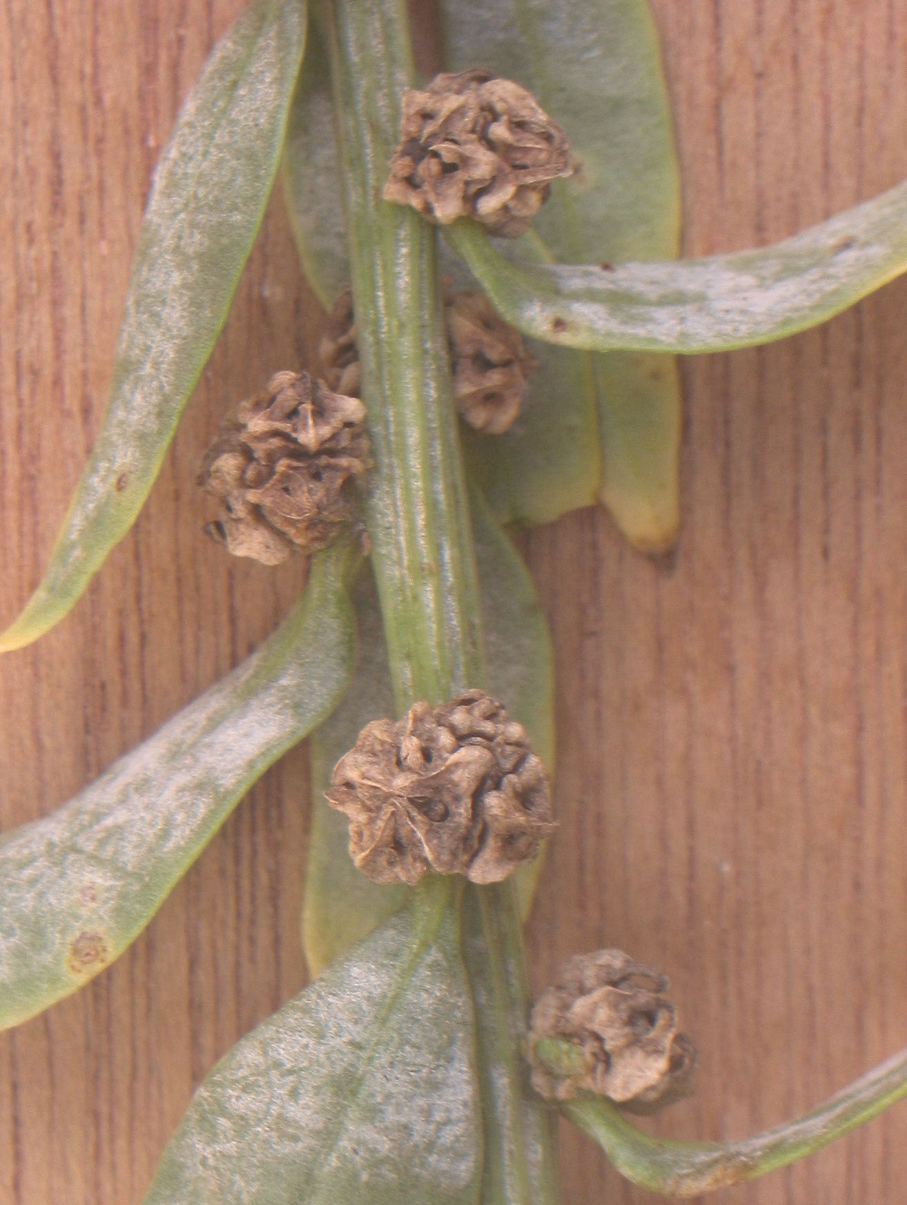 Beta vulgaris fruits